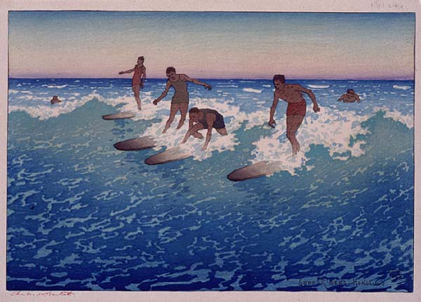 Surf-Riders, Honolulu, State A, color woodcut by Charles W. Bartlett, 1919, Honolulu Museum of Art